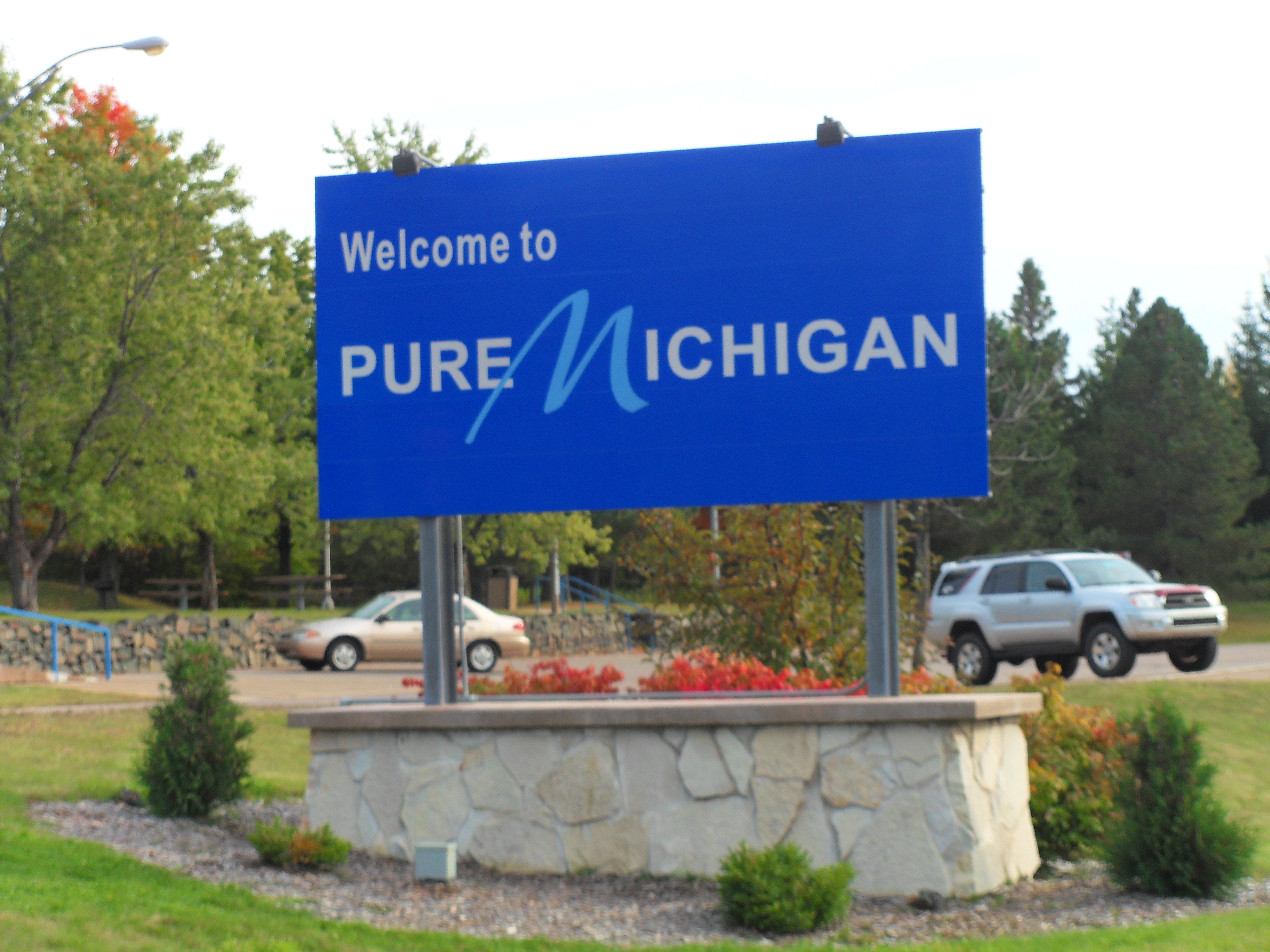 Michigan entrance sign